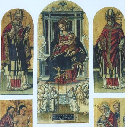 Polittico1